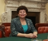 Professor Cynthia Pine CBE, Executive Dean of the University's Faculty of Health & Social Care